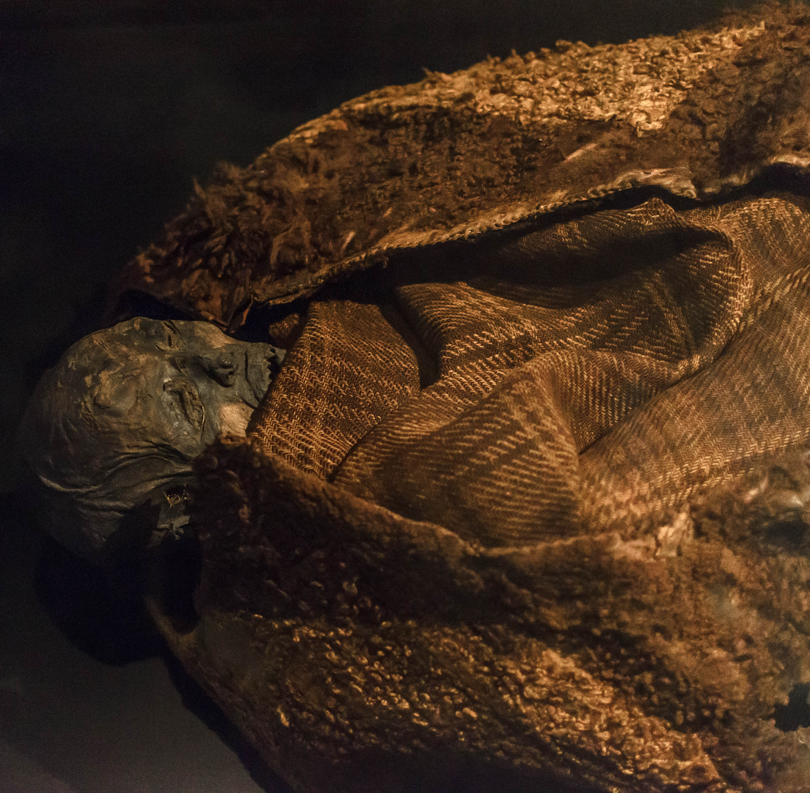 The woman from Huldremose. c. 100 AD. "The woman wore a skirt of wool, a scarf and two fleece capes. Her hair was tied up with a long woolen cord, which had also been wound several times around her neck."